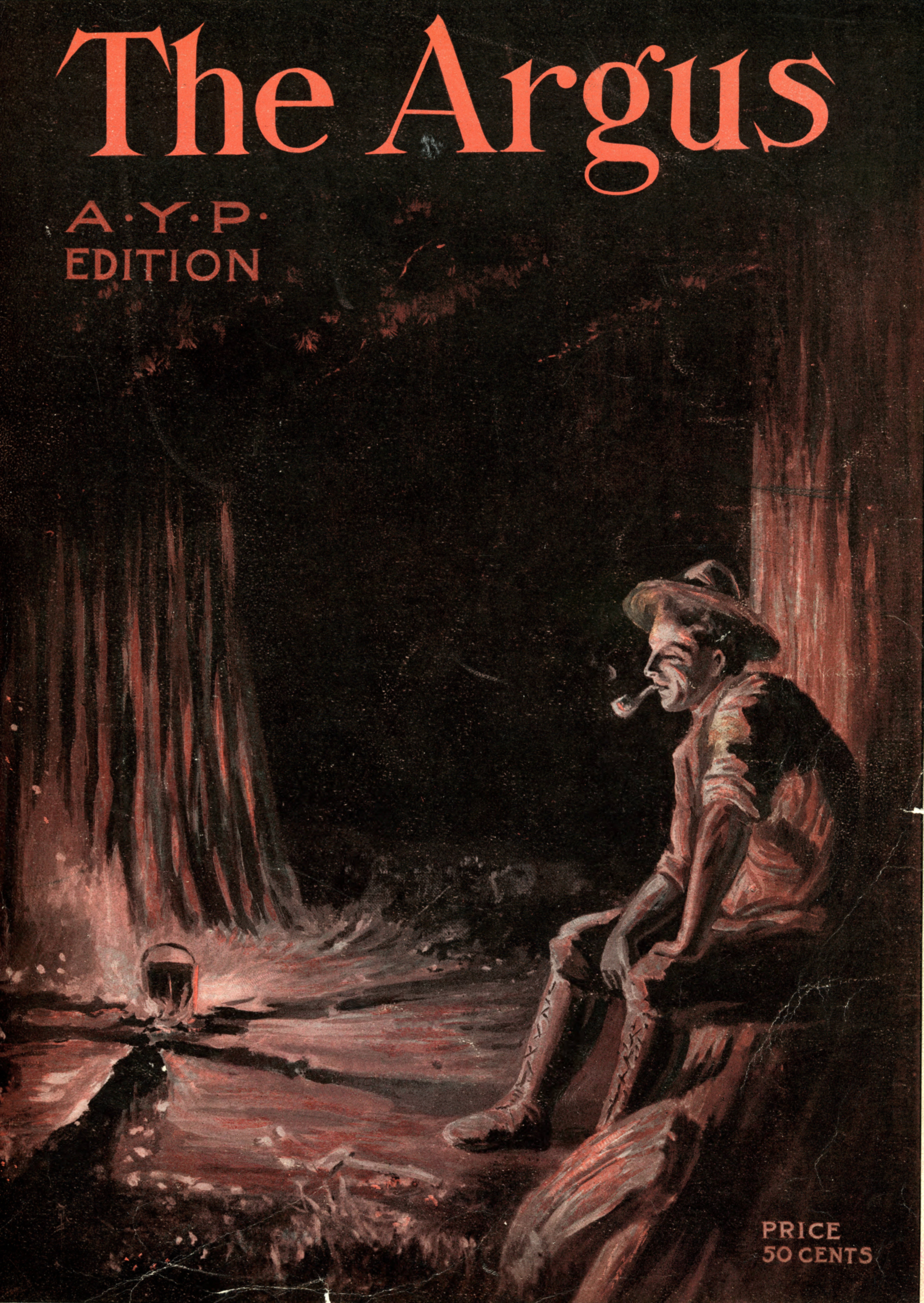 Version of File:Argus_-_A.Y.P._ed._-_Front_cover.jpg blurred to eliminate half-toning and with red Seattle Public Library stamp removed. Cover of The Argus, A-Y-P edition. From the materials for the Alaska-Yukon-Pacific Exposition of 1909, held in Seattle.